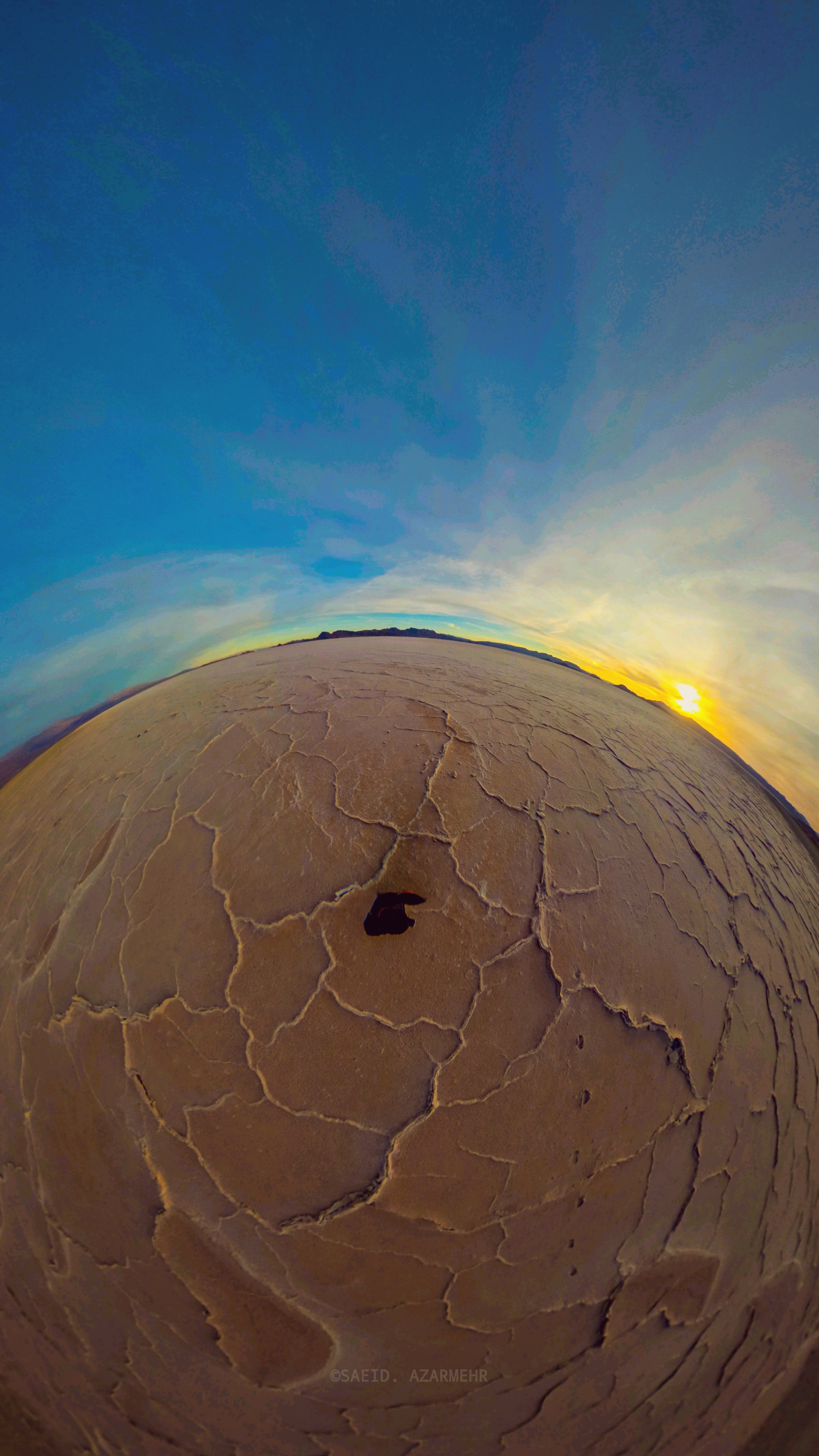 Sunset of Bakhtegan Lake